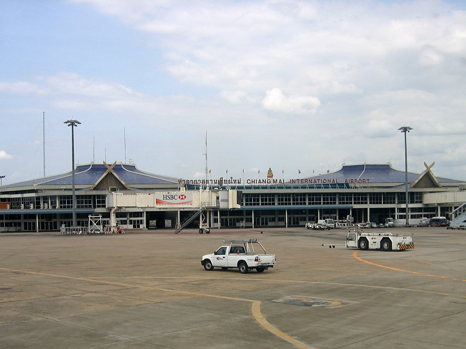 Chiang Mai International Airport, Thailand